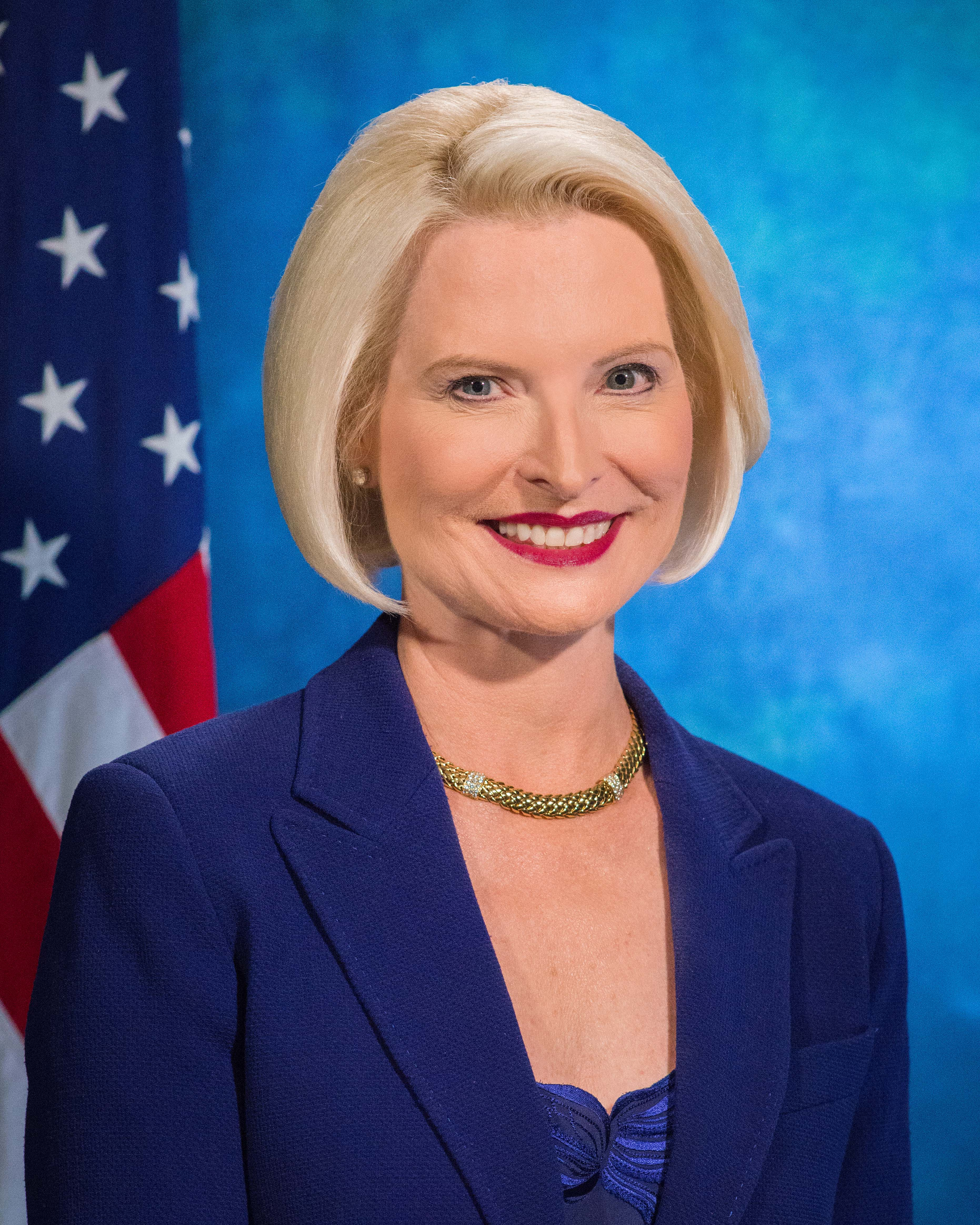 Callista Gingrich official photo